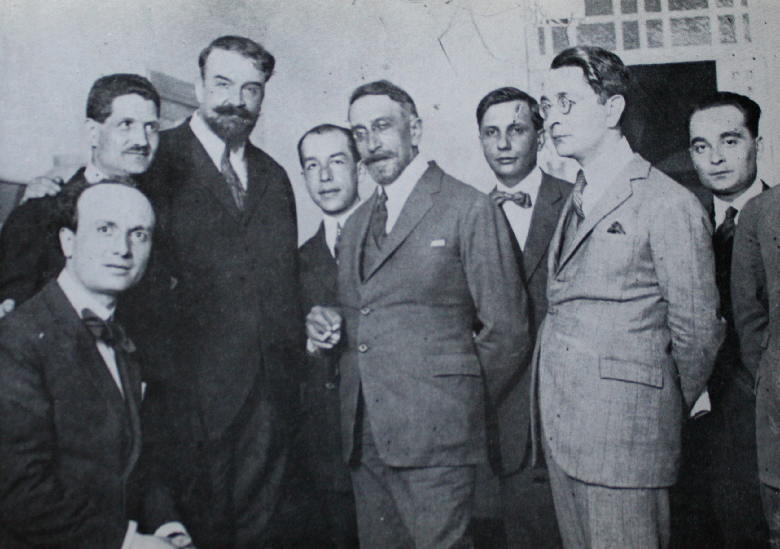 Gino Gori (third from the left), Giuseppe Navone (fifth from the left), Luciano Folgore (sixth from the left), Nicola Moscardelli (seventh from the left, standing).